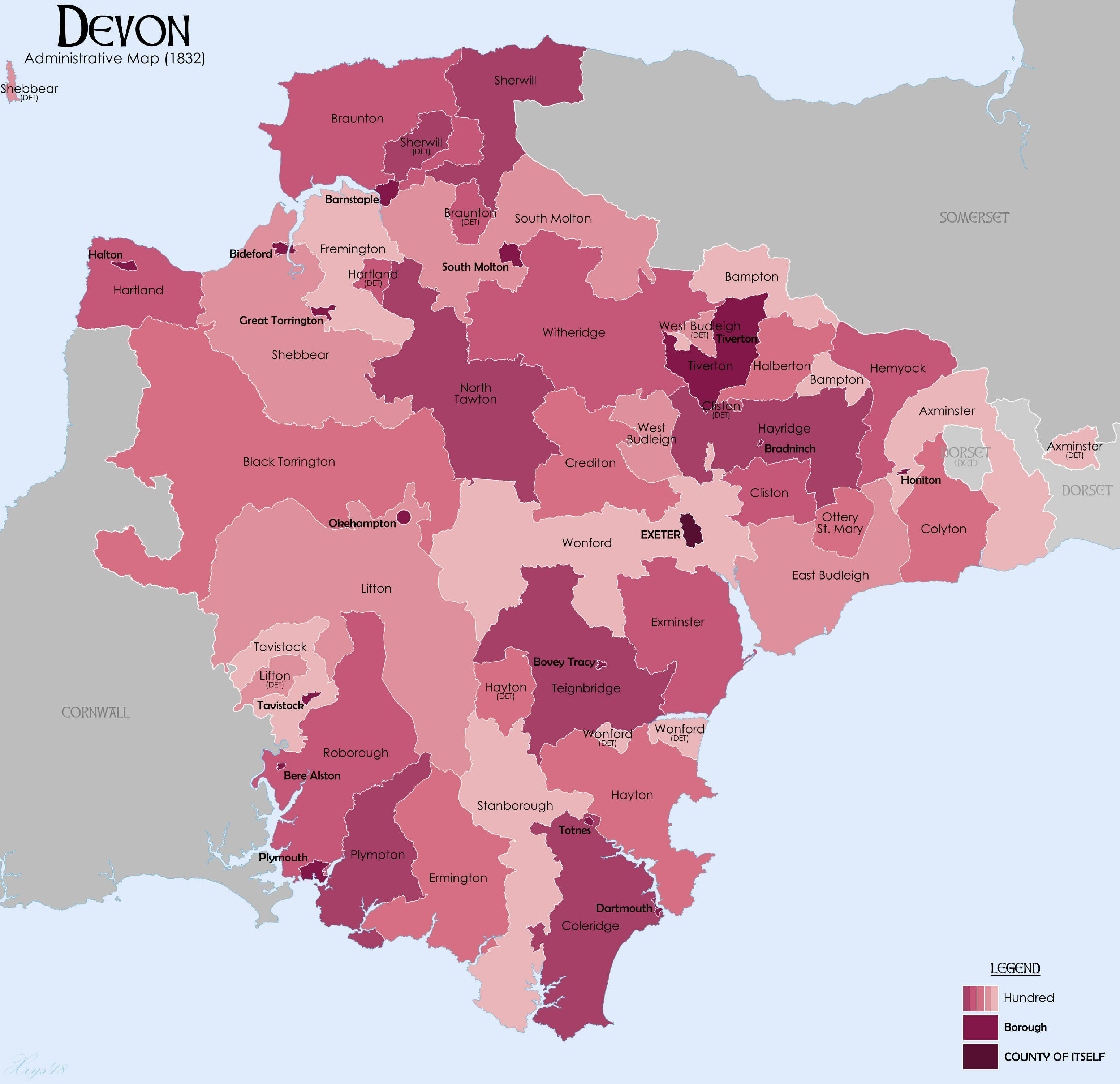 Administrative map of the county of Devon in 1832. Showing Hundreds, extant Boroughs. Hundred boundaries from University of Nottingham English Place Name Society. Source data for parish boundaries - Kain, R.J.P., and Oliver, R.R. (2001) "Historic parishes of England and Wales". Unit names and Borough boundaries from Vision of Britain website.